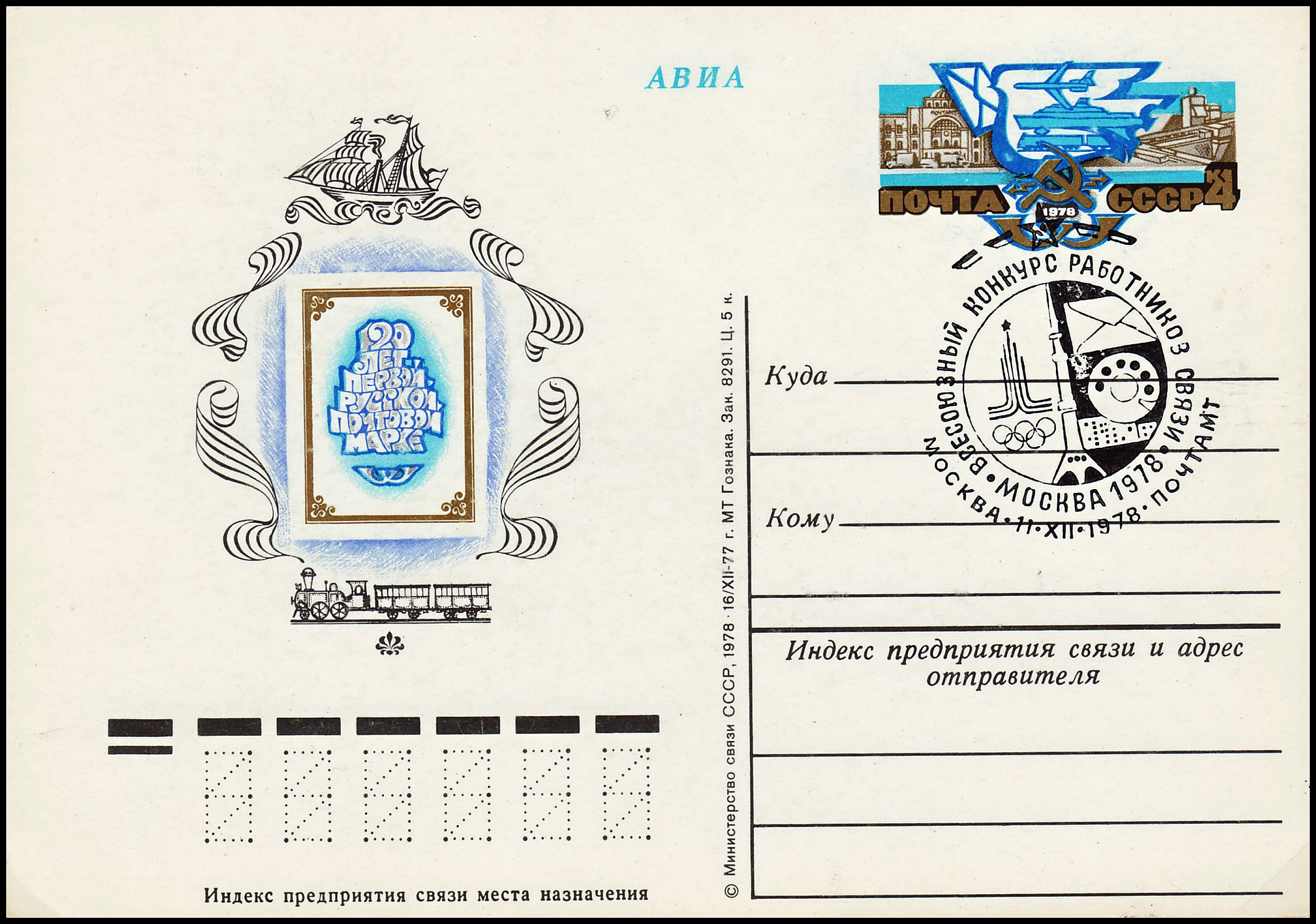 USSR, 1978. Postal card with commrmorative stamp. Airmail. "120th anniversary of the first Russian postage stamp" (CPA Catalogue №58). Stamp: The stylized image of modern shipping and handling mail. Building the Central Post Office in Moscow; soviet emblem of communication. Illustration: Symbolic image of a postage stamp with a commemorative text; the old vehicle of mail delivery. Painter A. Shmidshteyn. Special cancellations: "All-Union Contest of Communications Workers. Moscow 1978" 12/11/1978 Moscow, Central Post Office.